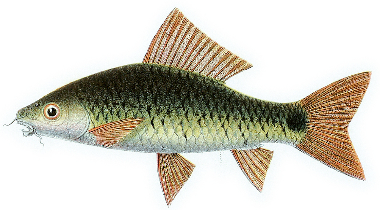 Osteochilus spilurus, identified in the original publication as Rohita (Rohita) oligolepis